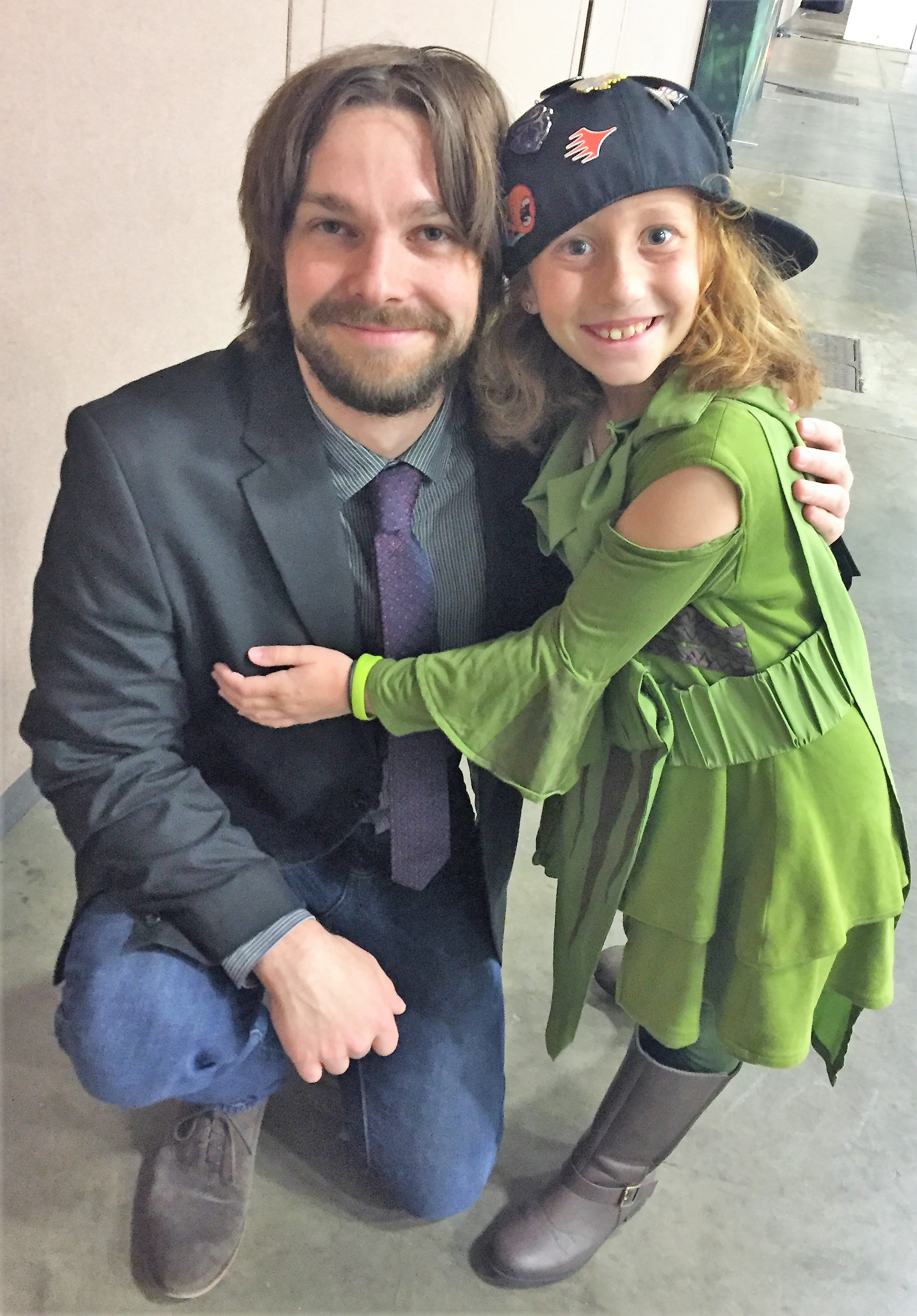 Competitive Magic: the Gathering players Reid Duke and Dana Fischer at MagicFest Dallas 2019.